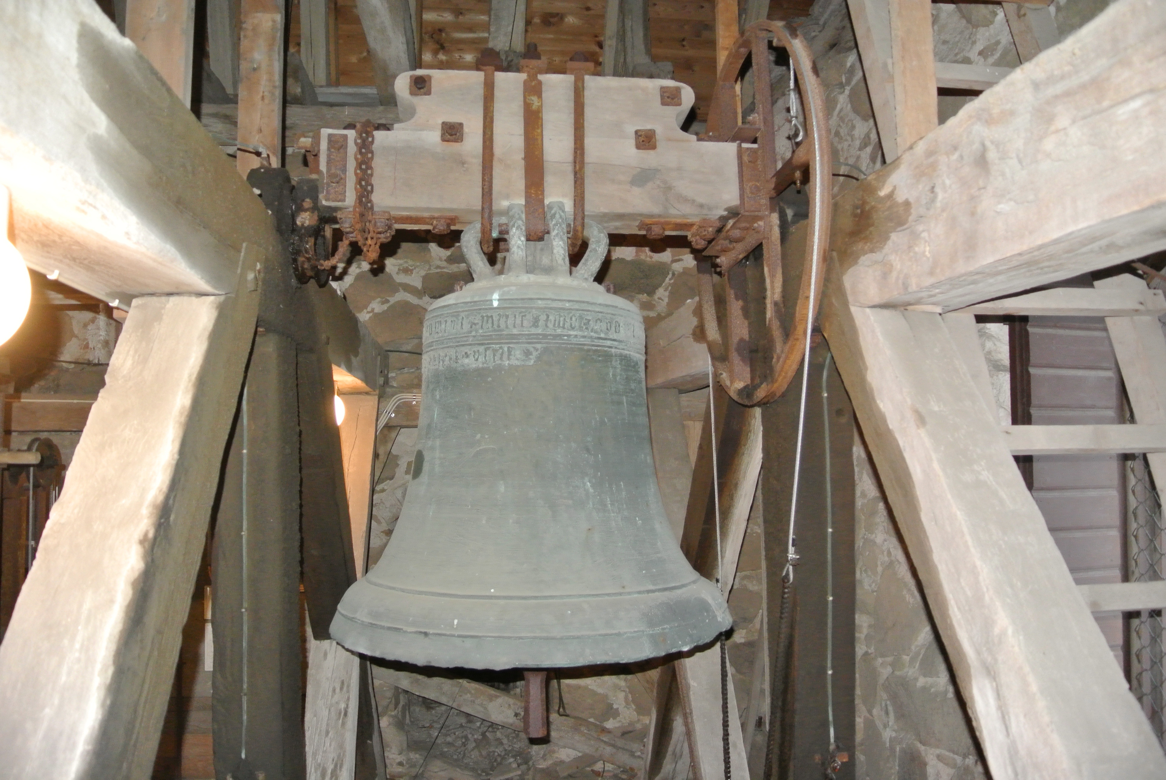 Storklockan i Degeberga kyrka. Gjuten år 1494